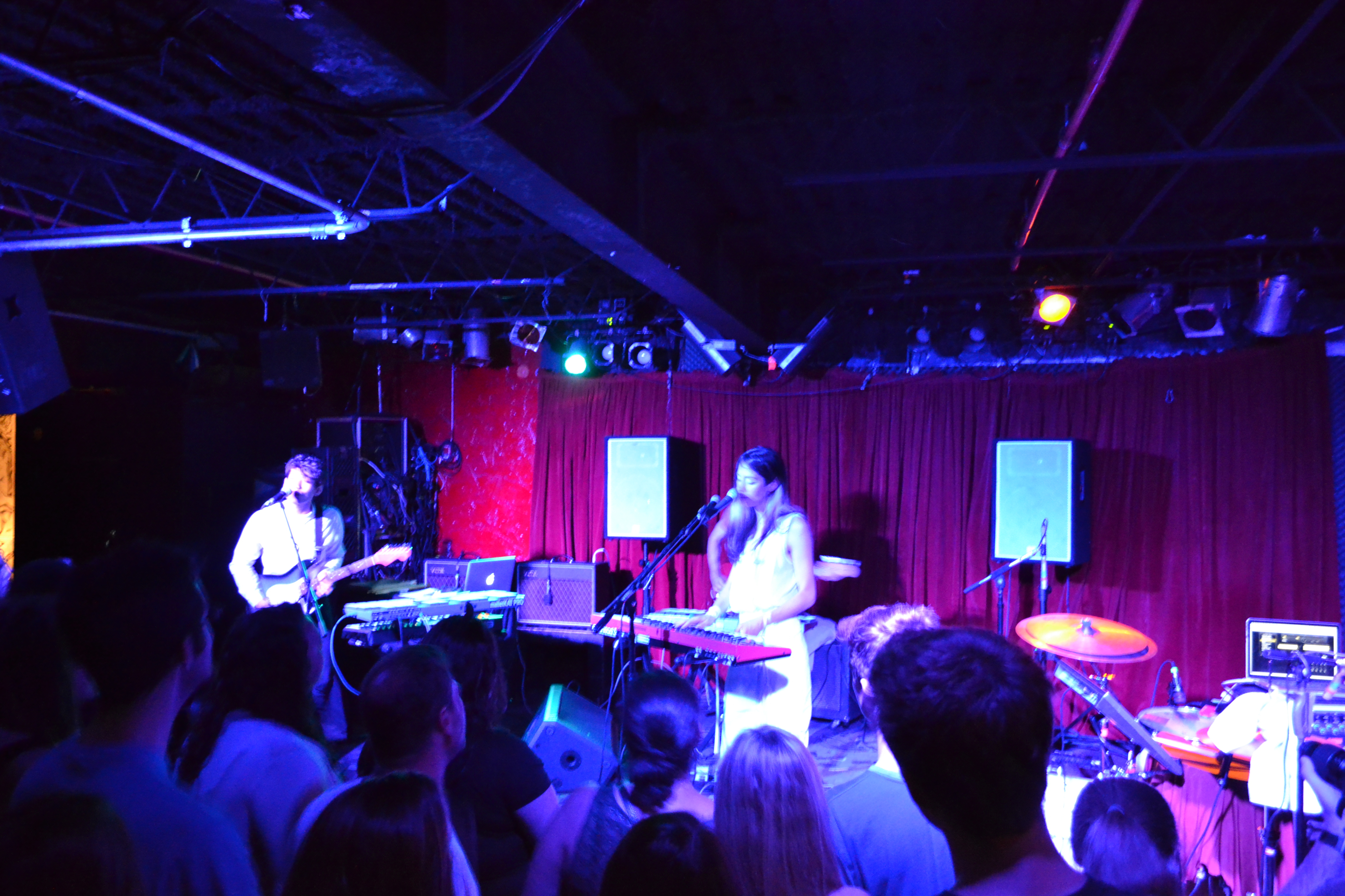 Chairlift performing at Grog Shop in Cleveland Heights, OH in 2013